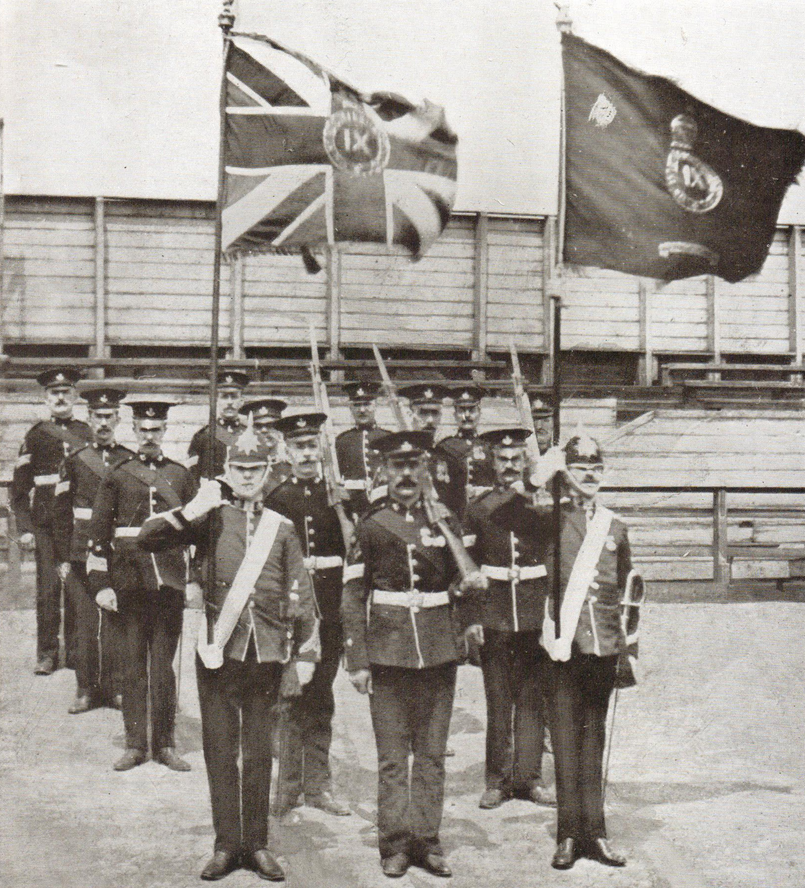 Colour party of the 9th battalion Durham Light Infantry after receiving new colours from King Edward VII 19 June 1909. members (b-f, l-r) S/Sgt Arkless, C/Sgt Ridley, Sgt Hutchinson, Sgt Hands: Sgt Bainbridge, Sgt Wilson, Sgt Douglas, C/Sgt Johnson: CQMS Siddle: C/Sgt Dick, Sgt Maddison: Lt Hebron, C/Sgt Kingston, Lt Martin